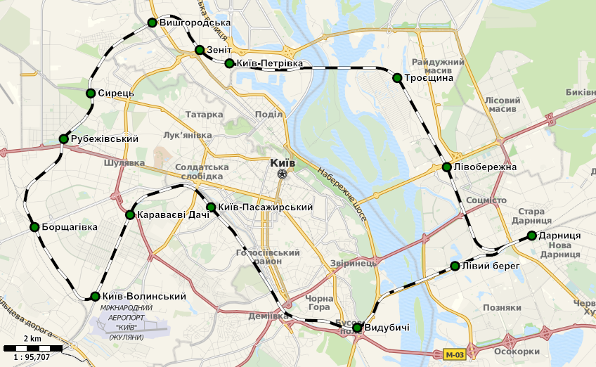 Map of route Kiev city train.